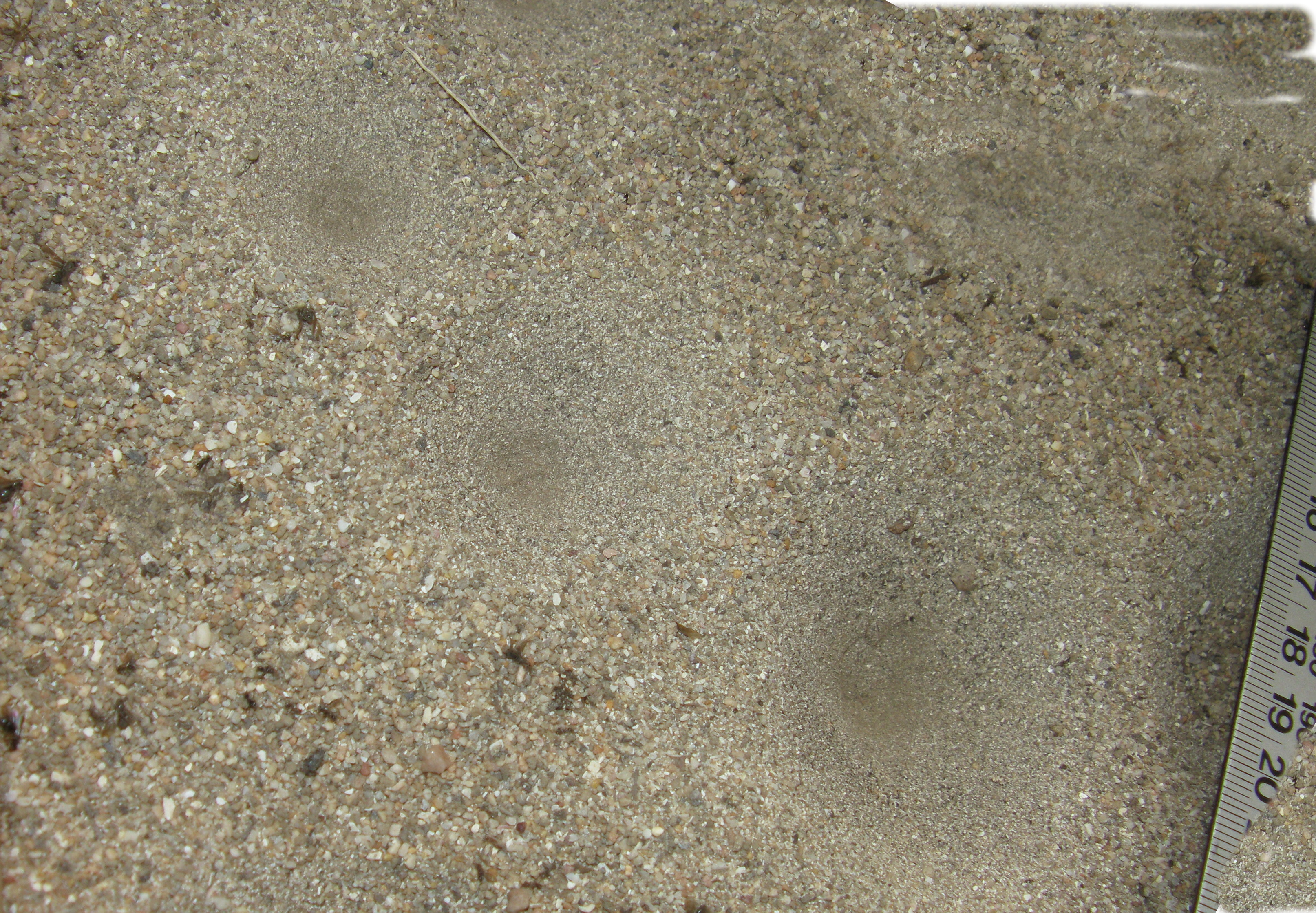 Pit traps of Wormlion fly larva, Leptynoma sericea. Note that the outline of the larva in the pit is faintly visible, unlike the larvae of most pit-digging antlions.